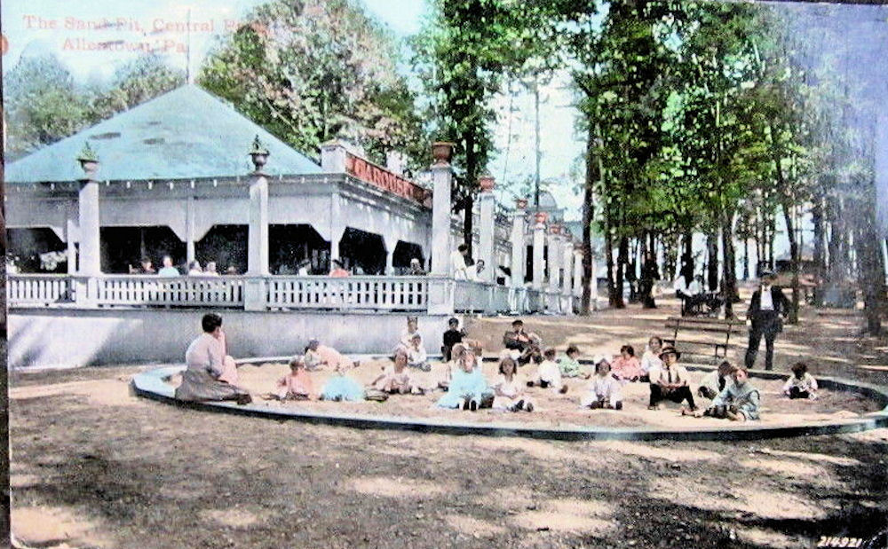 Postcard of the Central Park Sandpile - 1900